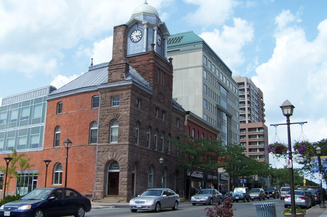 The Dominion Building on Queen St. E in Brampton, Ontario